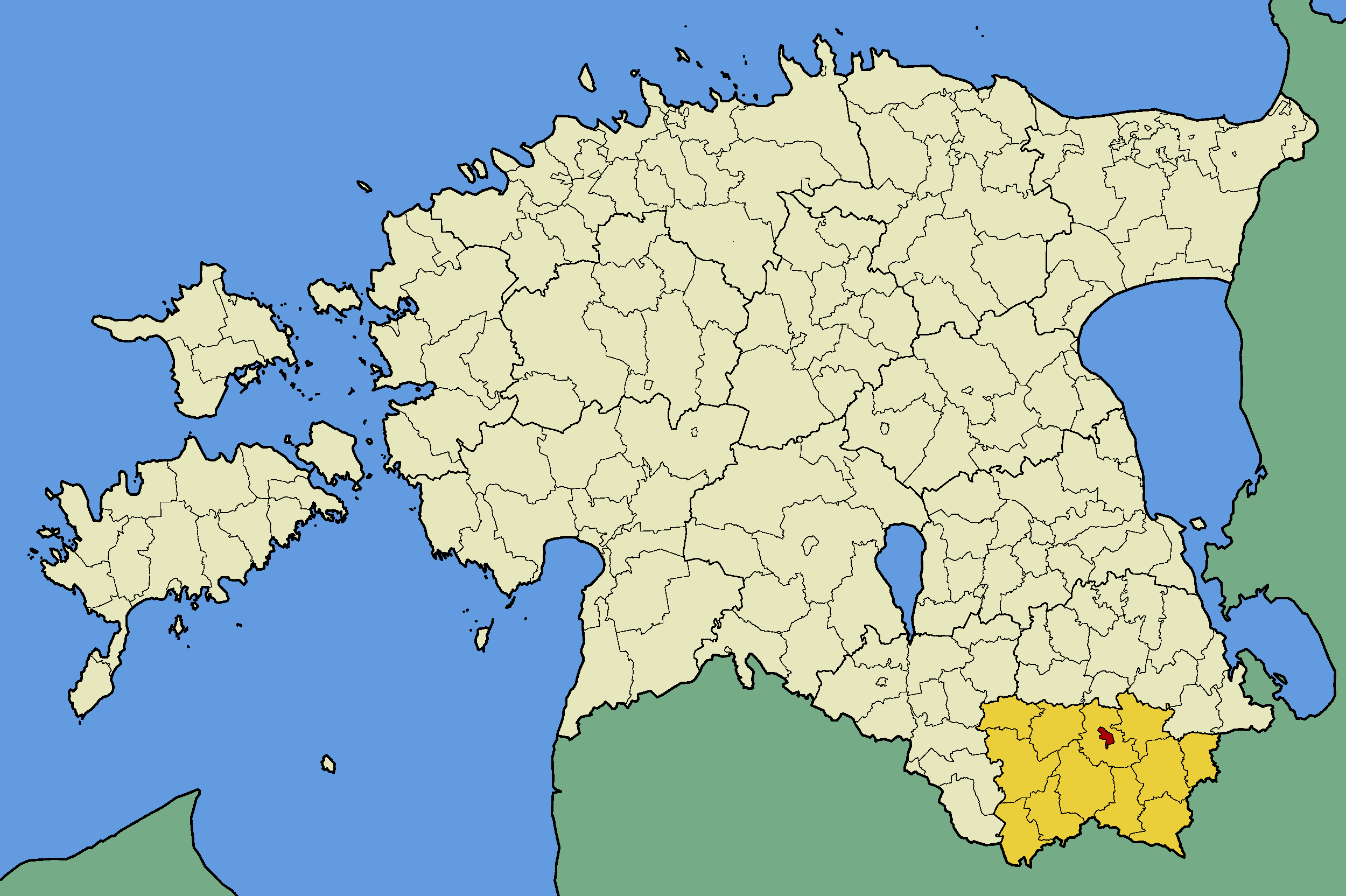 Map of Estonia with borders of municipalities (parishes). Võru county and Võru town municipality emphasized.